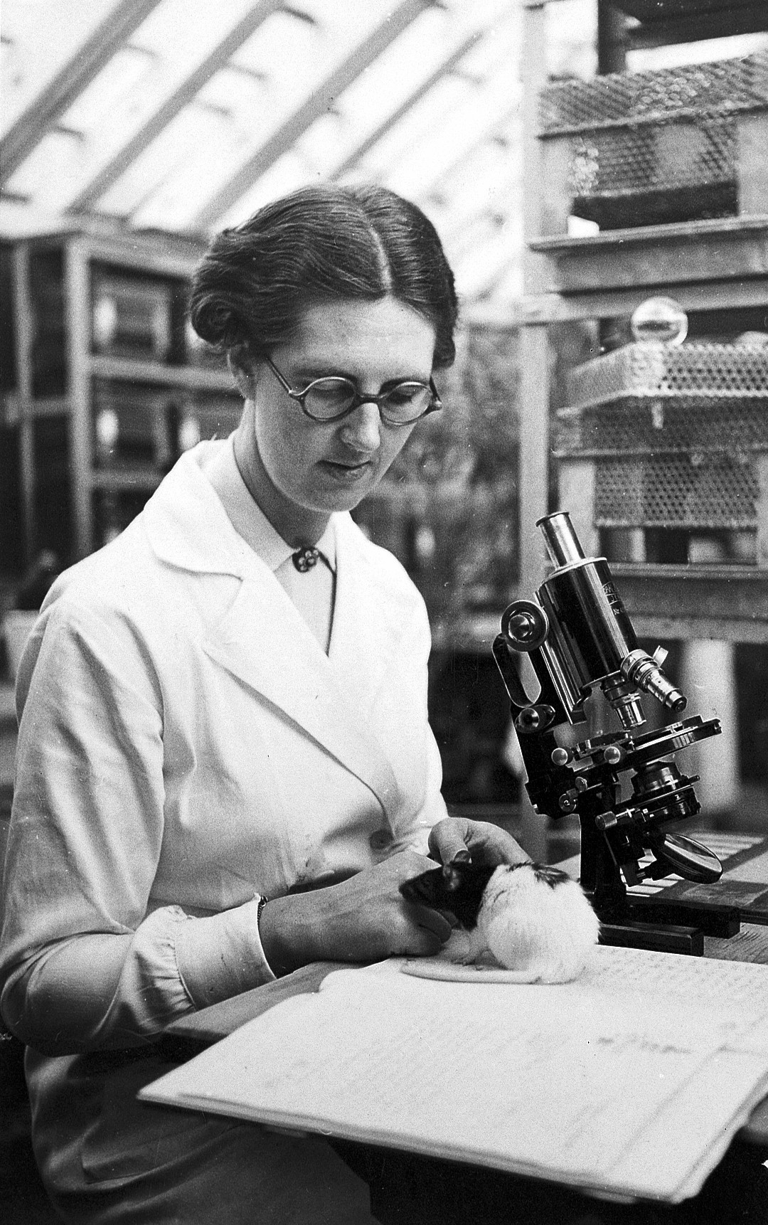 Portrait of A.M.Copping at work in the conservatory (animal house) at Roebuck House Archives & Manuscripts Keywords: A.M. Copping; Lister Institute of Preventive Medicine